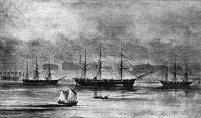 Ships of the Russian squadron anchored in San Francisco in 1863. Left to right: corvettes "Rynda", "Bogatyr" and "Kalevala".